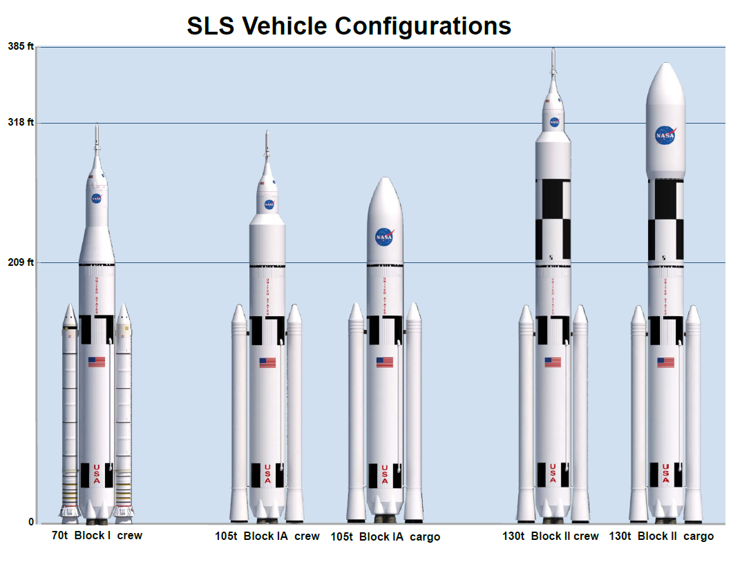 Artist rendering of the planned configurations of NASA's Space Launch System. "t" refers to metric tonnes, not imperial tons.